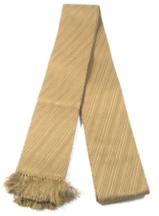 Men's kaku obi